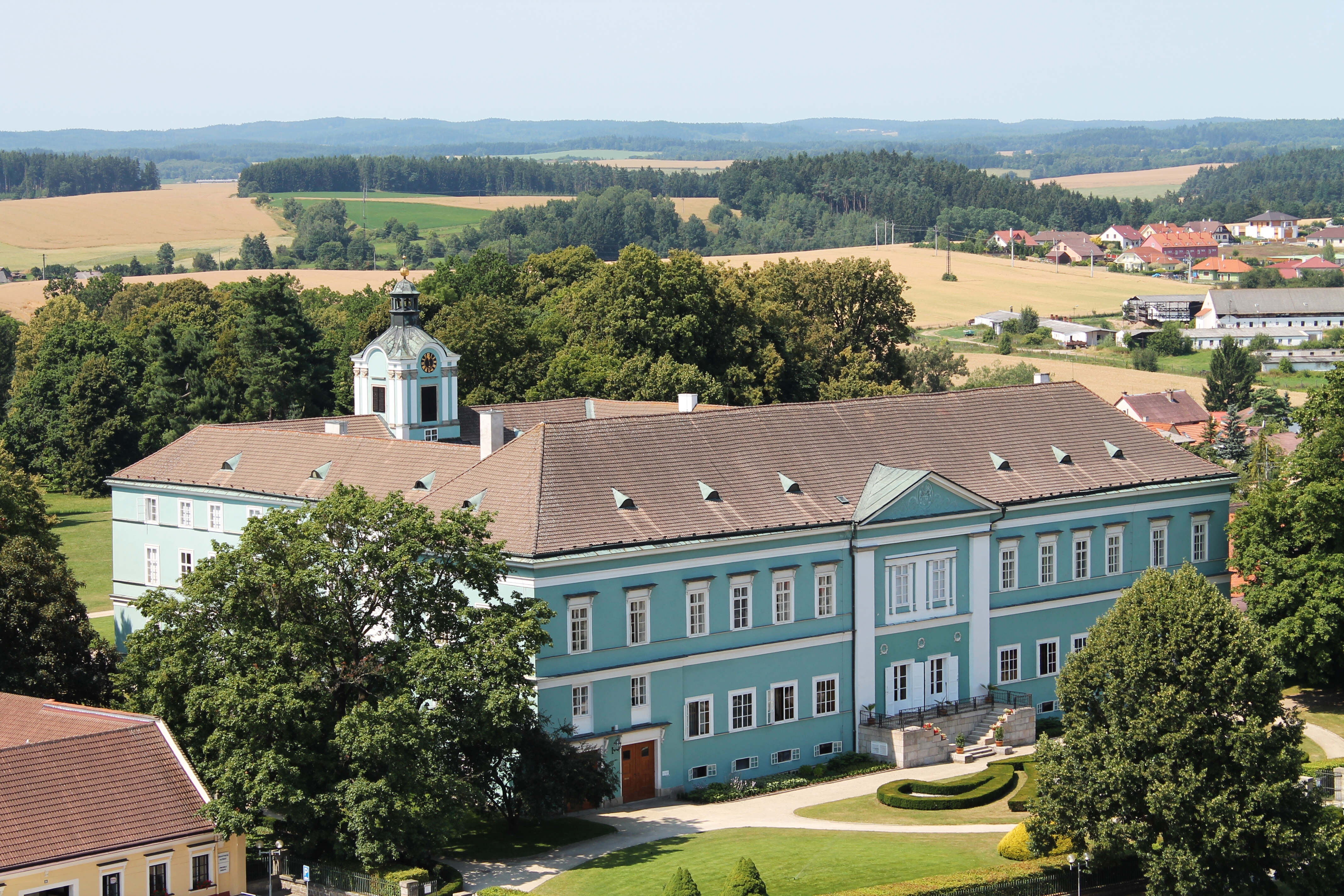 New castle - view from city tower of church of St. Lawrence, Dačice, Jindřichův Hradec District, Czech Republic